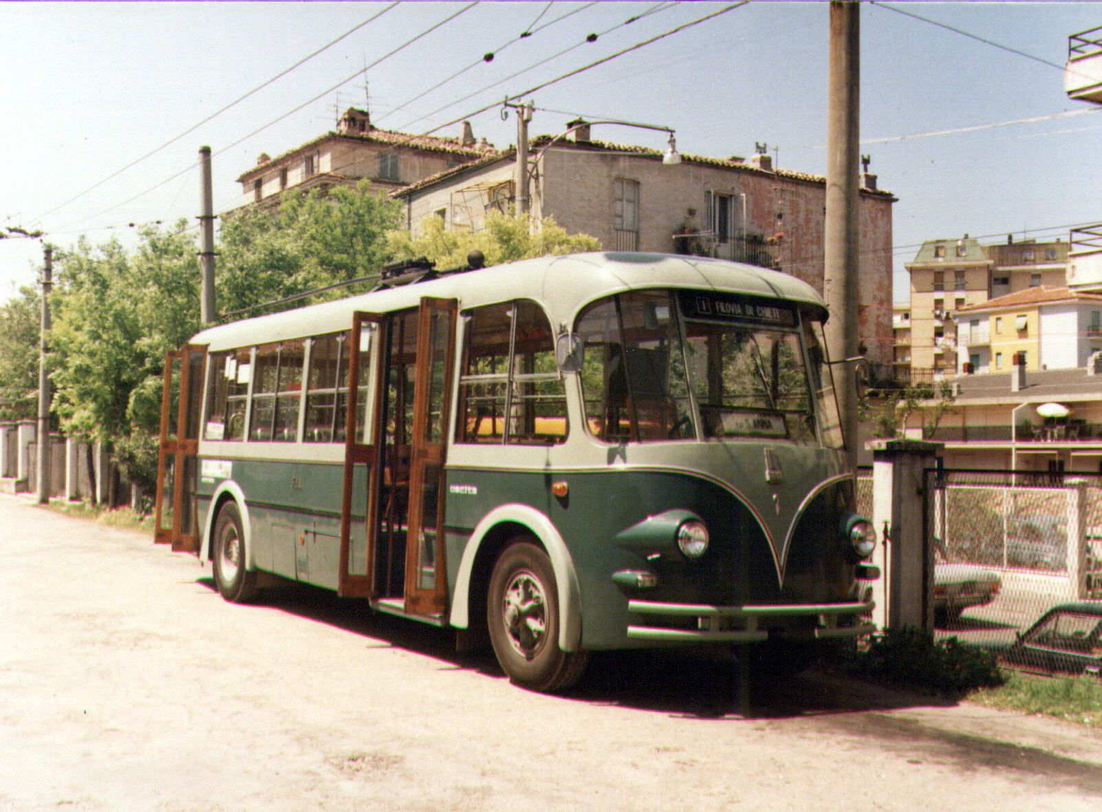 Chieti trolleybus No. 1, a Stanga-bodied Fiat 668F trolleybus built in 1950, parked at the depot (garage) in the 1970s or early 1980s. The last trolleybuses of this type in Chieti were retired from service in late 1985, and in 1990 No. 1 was preserved by the Museo Nazionale dei Trasporti, in La Spezia.